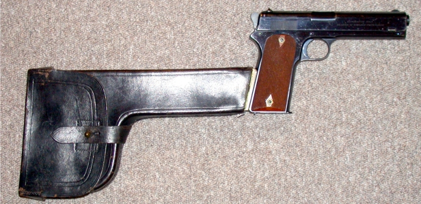 Colt 1905 cal 45